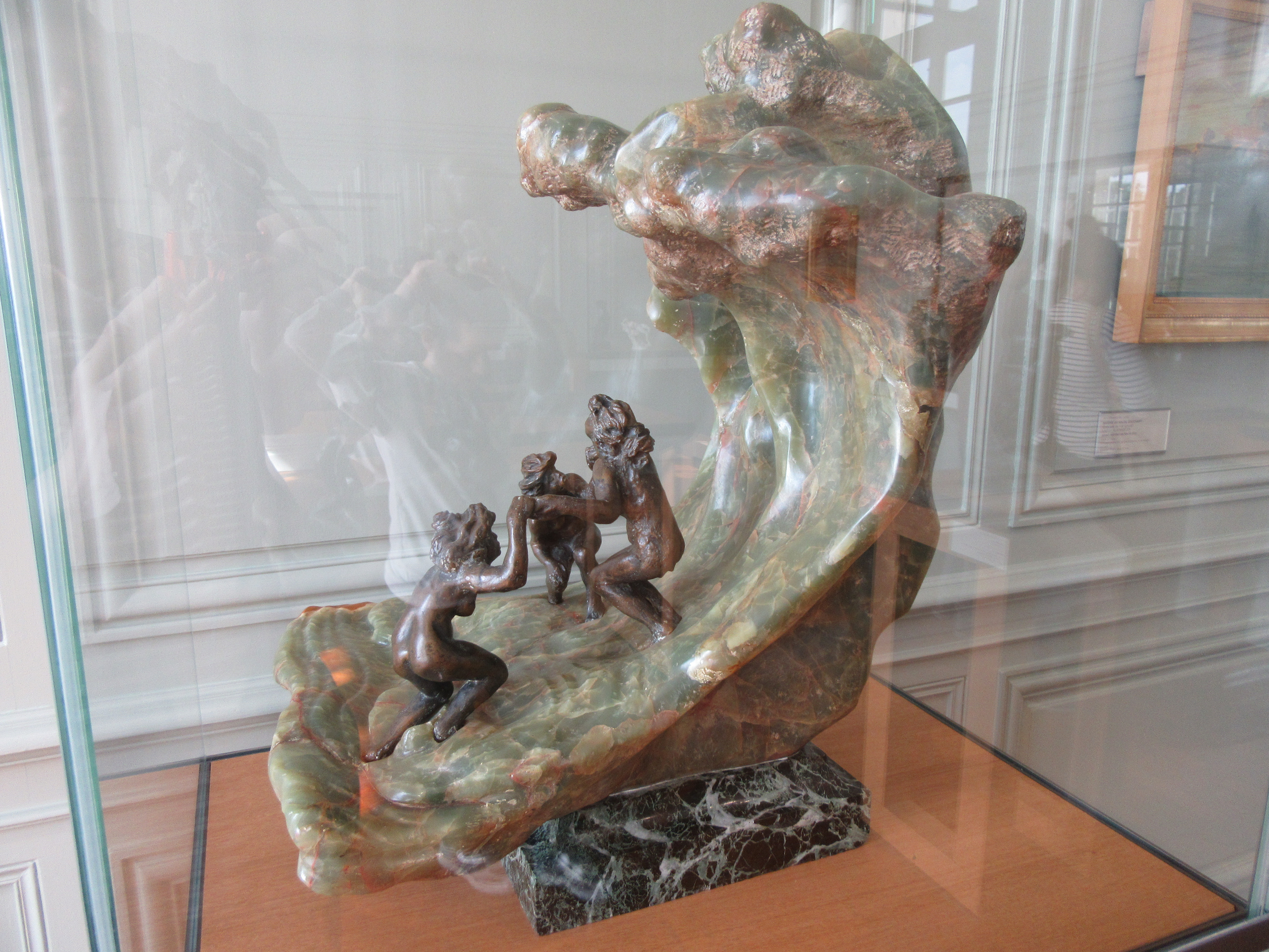 Camille Claudel, The Wave